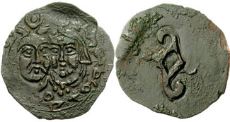 Sogdian coin found in Chaghaniyan.